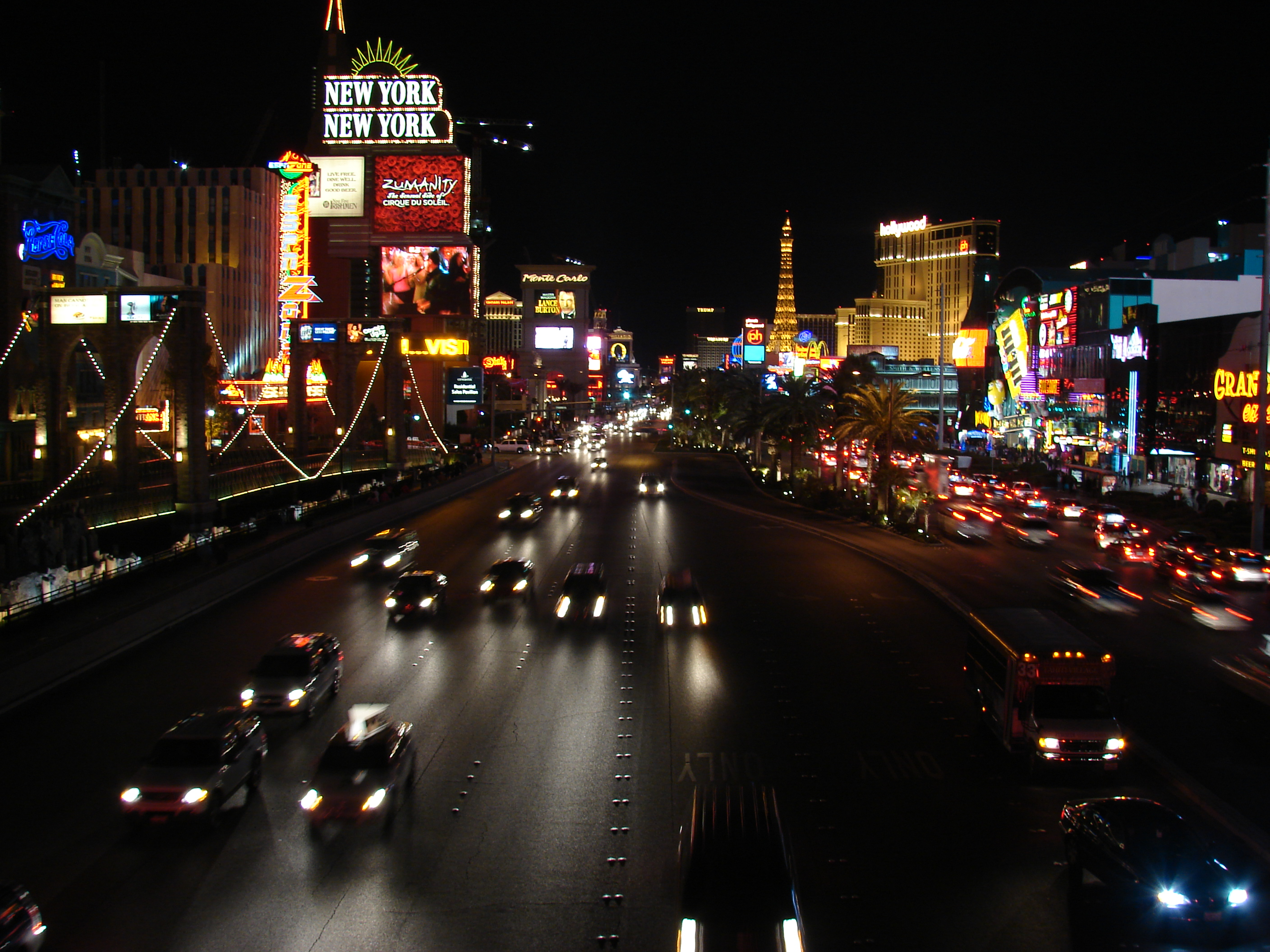 Nerium oleander (lights on the Strip). Location: Nevada, Las Vegas